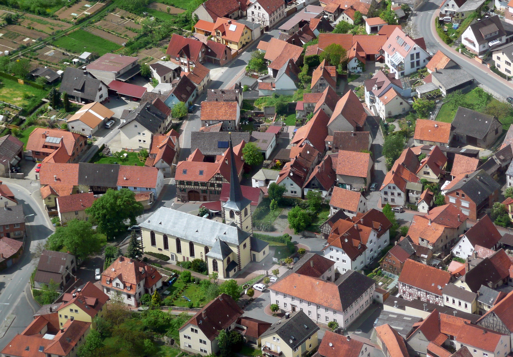 Aerial view of Steinfeld (Lower Franconia), Germany. Historical center with church